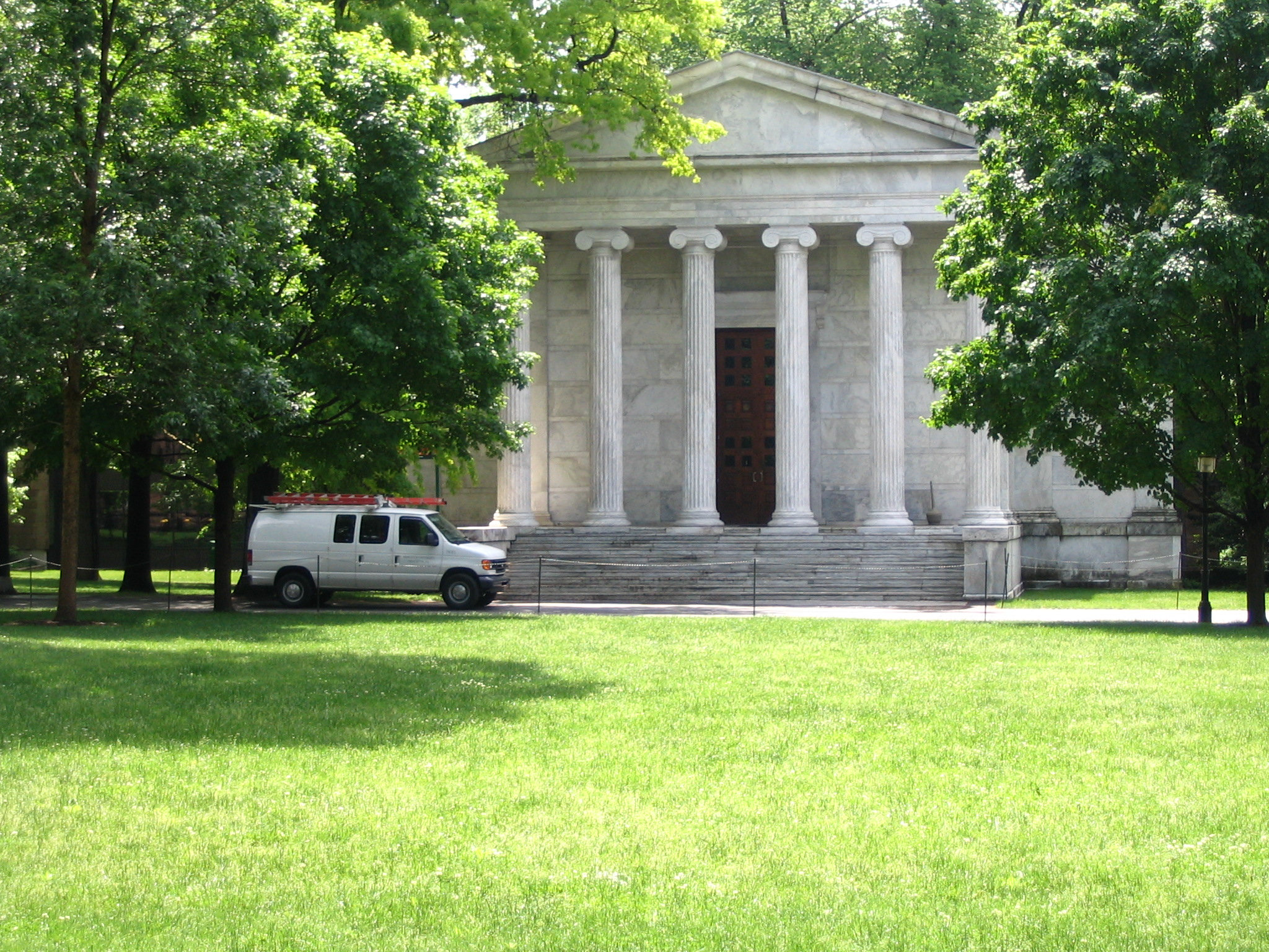 Whig Hall, Princeton University, Princeton, NJ